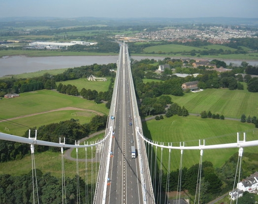 The Severn Bridge spans the River Severn between South Gloucestershire, England, and Monmouthshire in South Wales